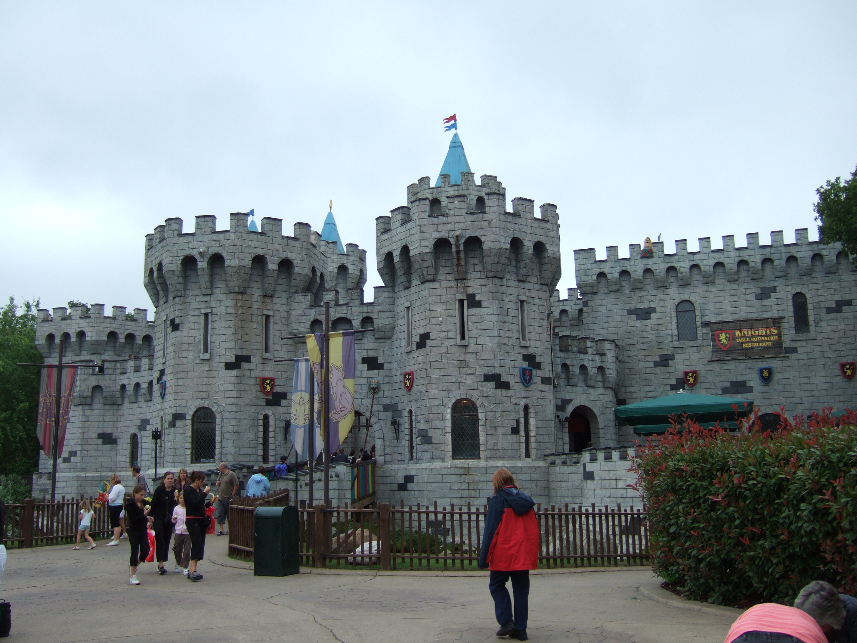 Knights' Kingdom, Legoland Windsor, Berkshire, UK